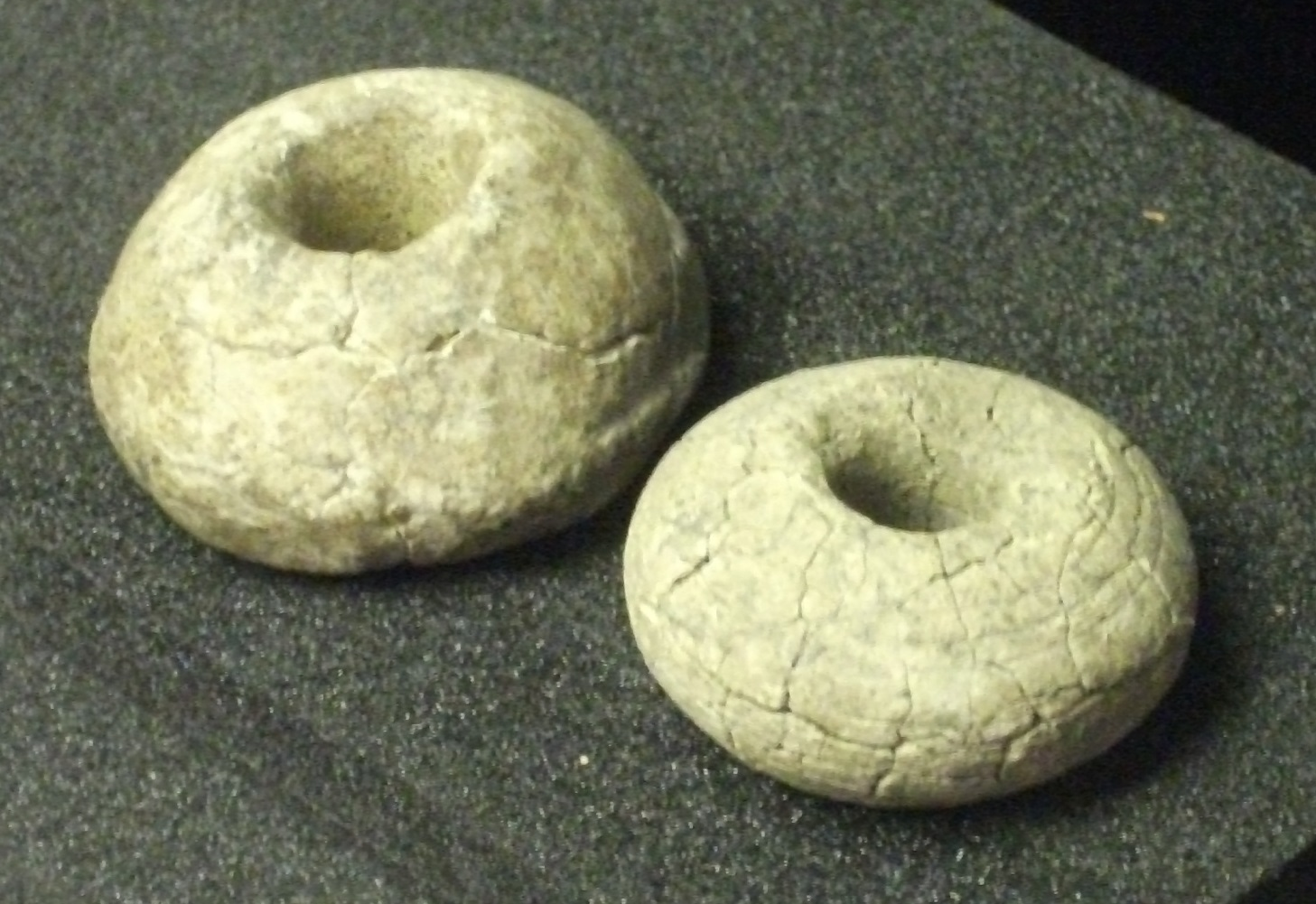 2 Saxo-Norman clay spindlewhorls, on display in Bedford Museum.